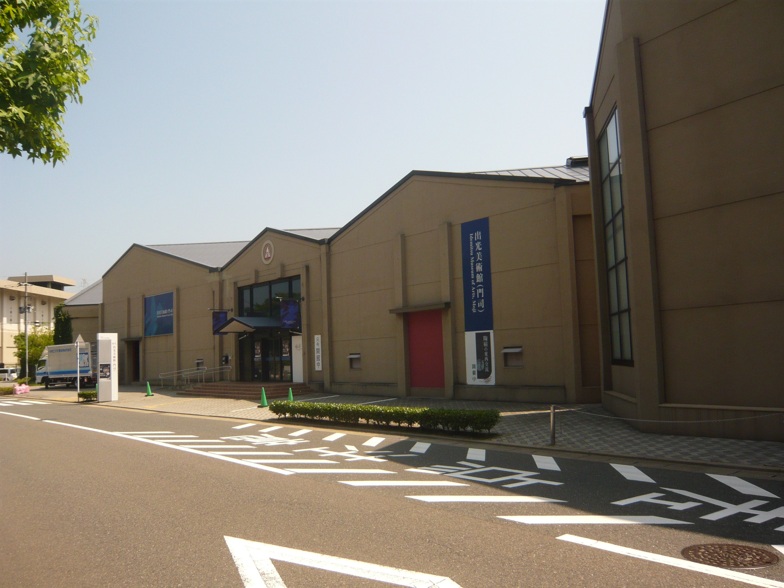 Idemitsu Museum of Arts, Kitakyushu, Fukuoka, Japan